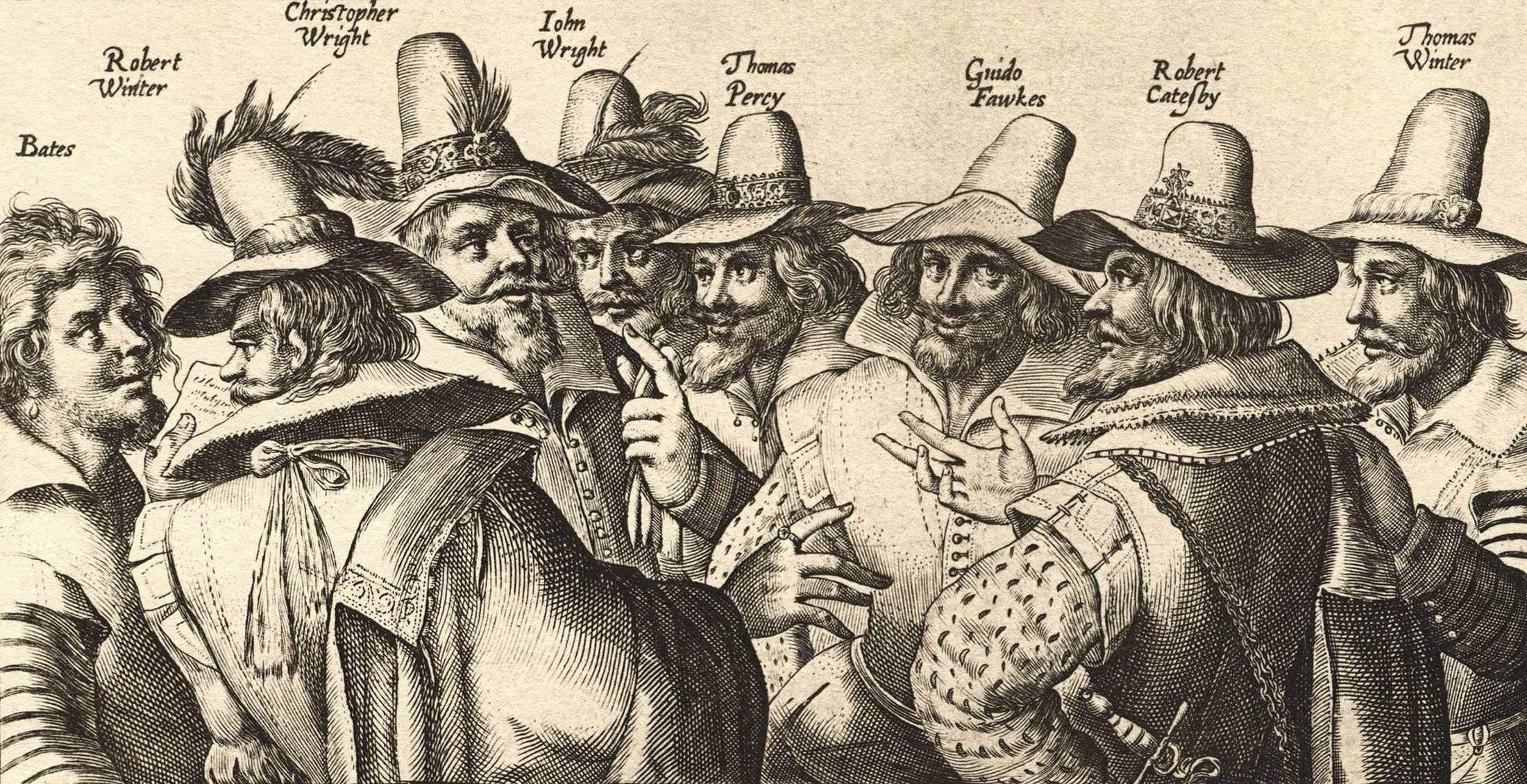 Detail from a contemporary engraving of the Gunpowder Plotters. The Dutch artist probably never actually saw or met any of the conspirators, but it has become a popular representation nonetheless.